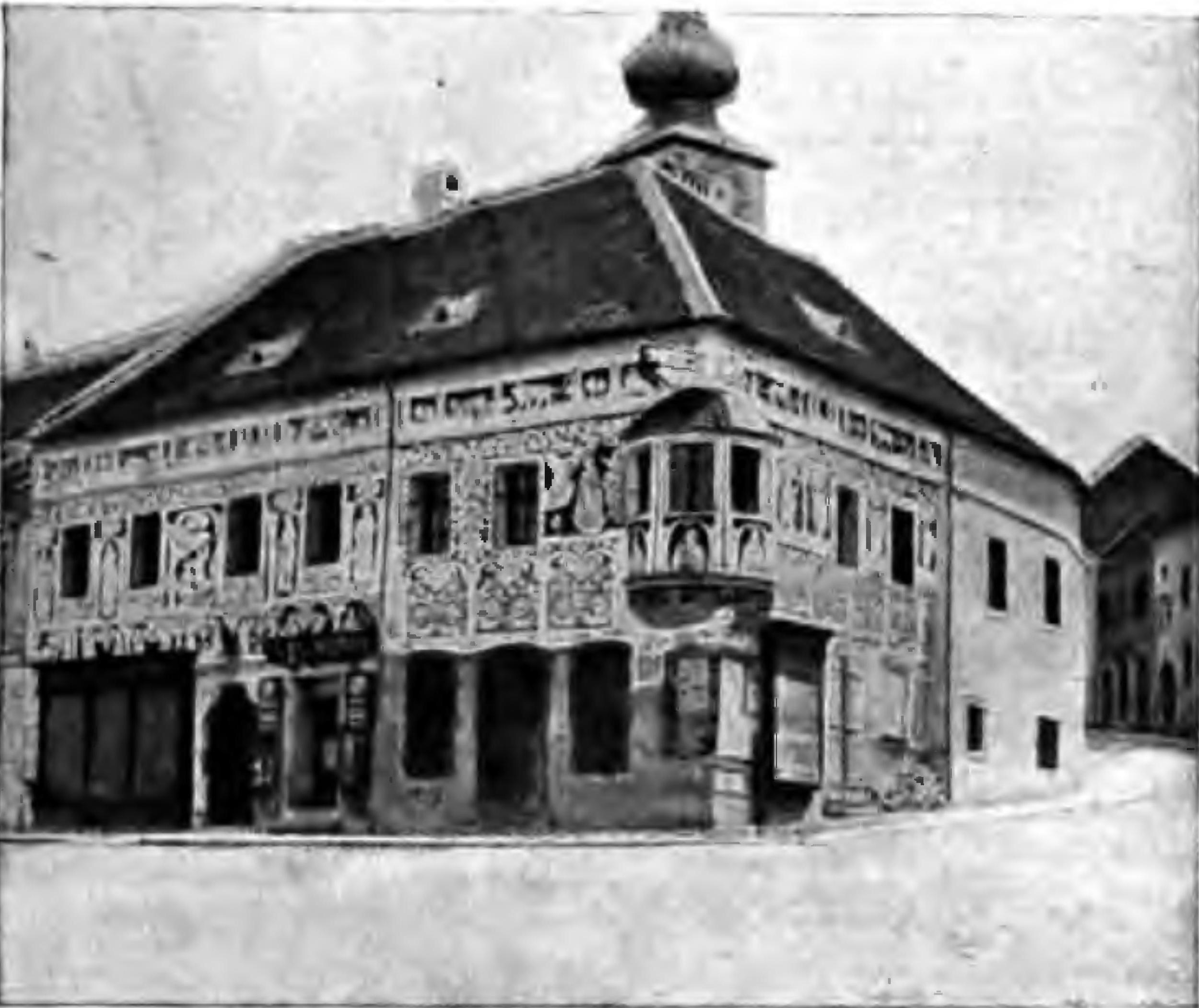 Pic. 51. House no. 64 5 with reconstucted sgrafitto.